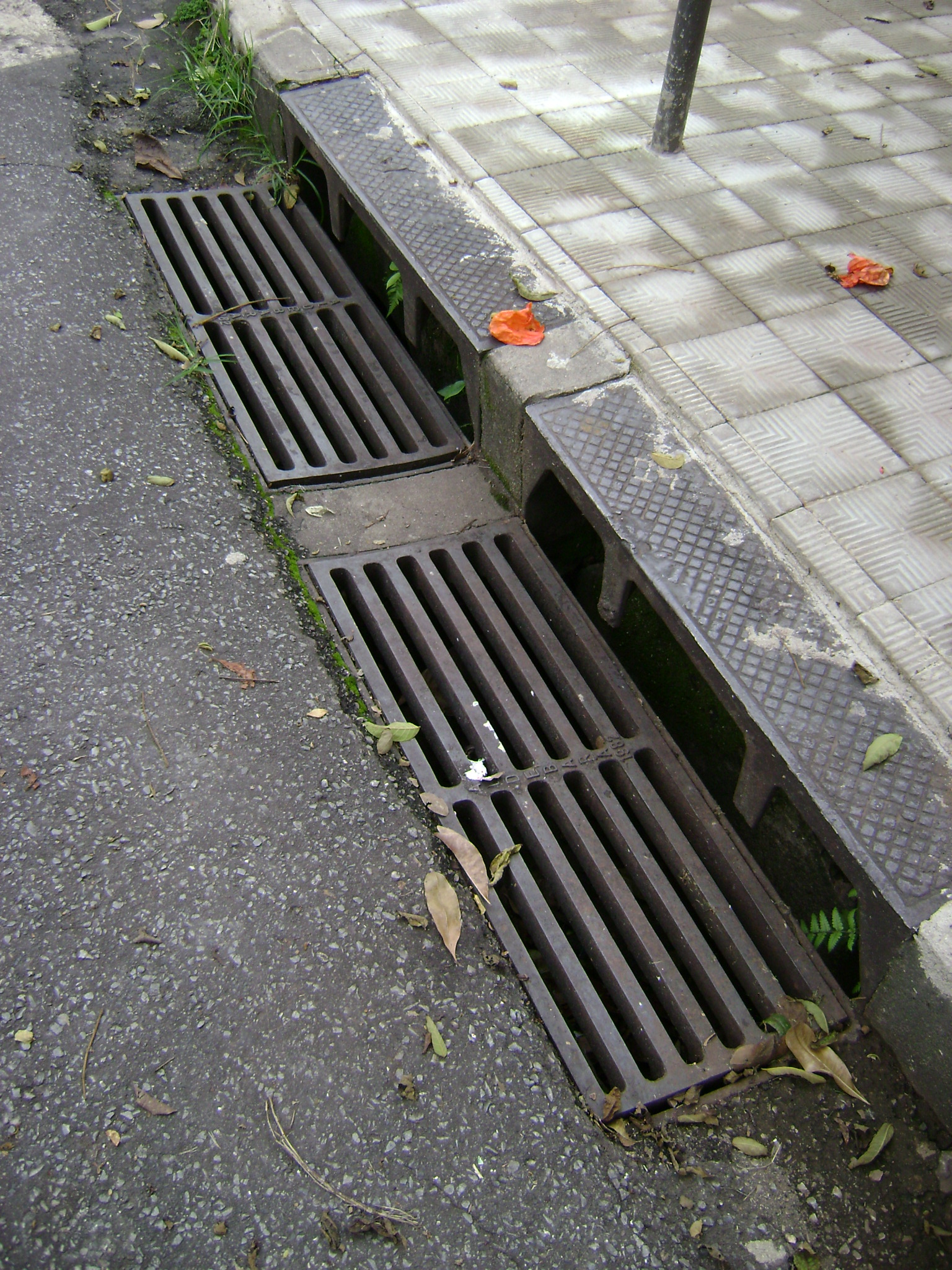 Boca de lobo